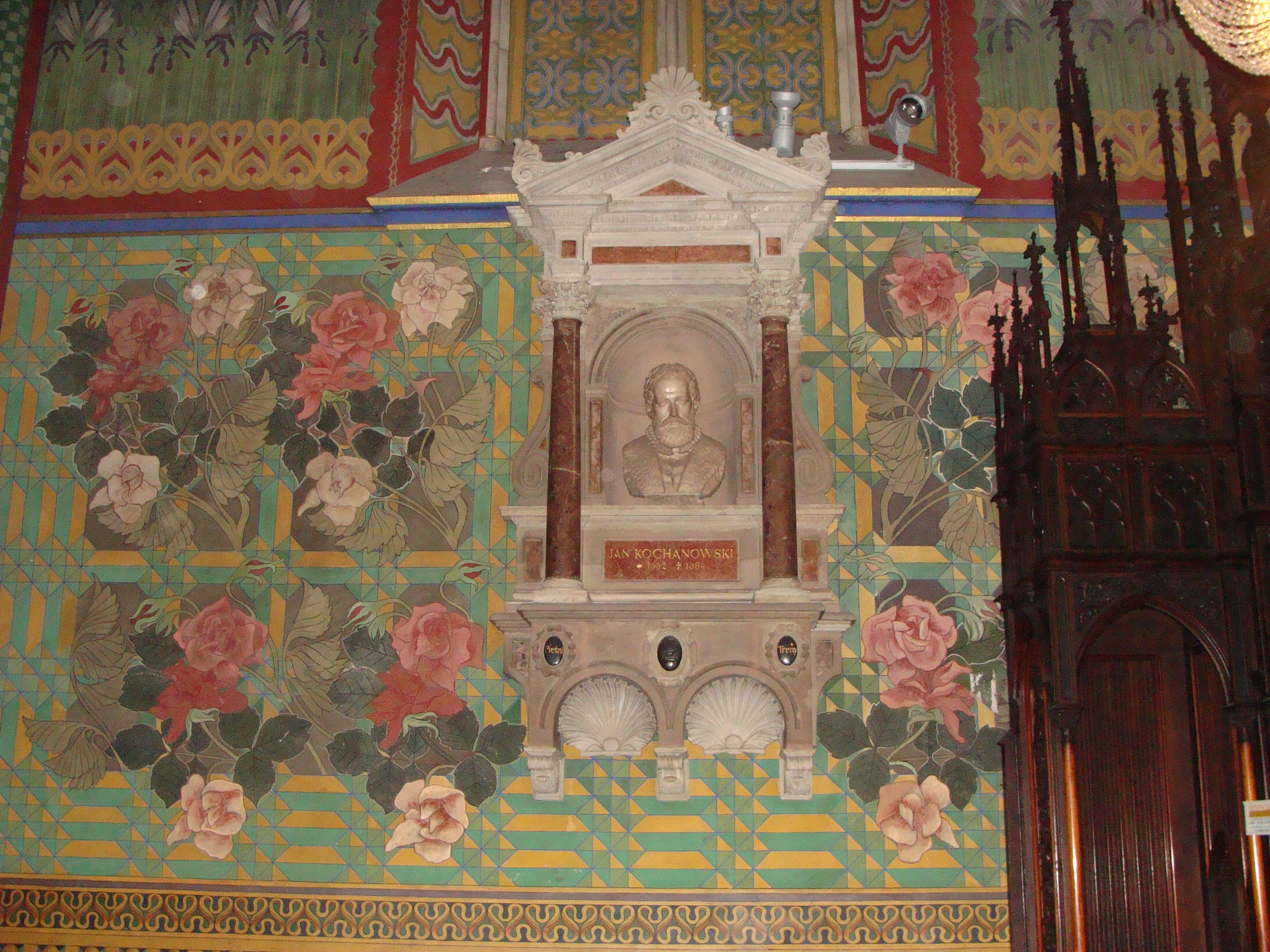 Kochanowski monument, Franciscan Church, Krakow